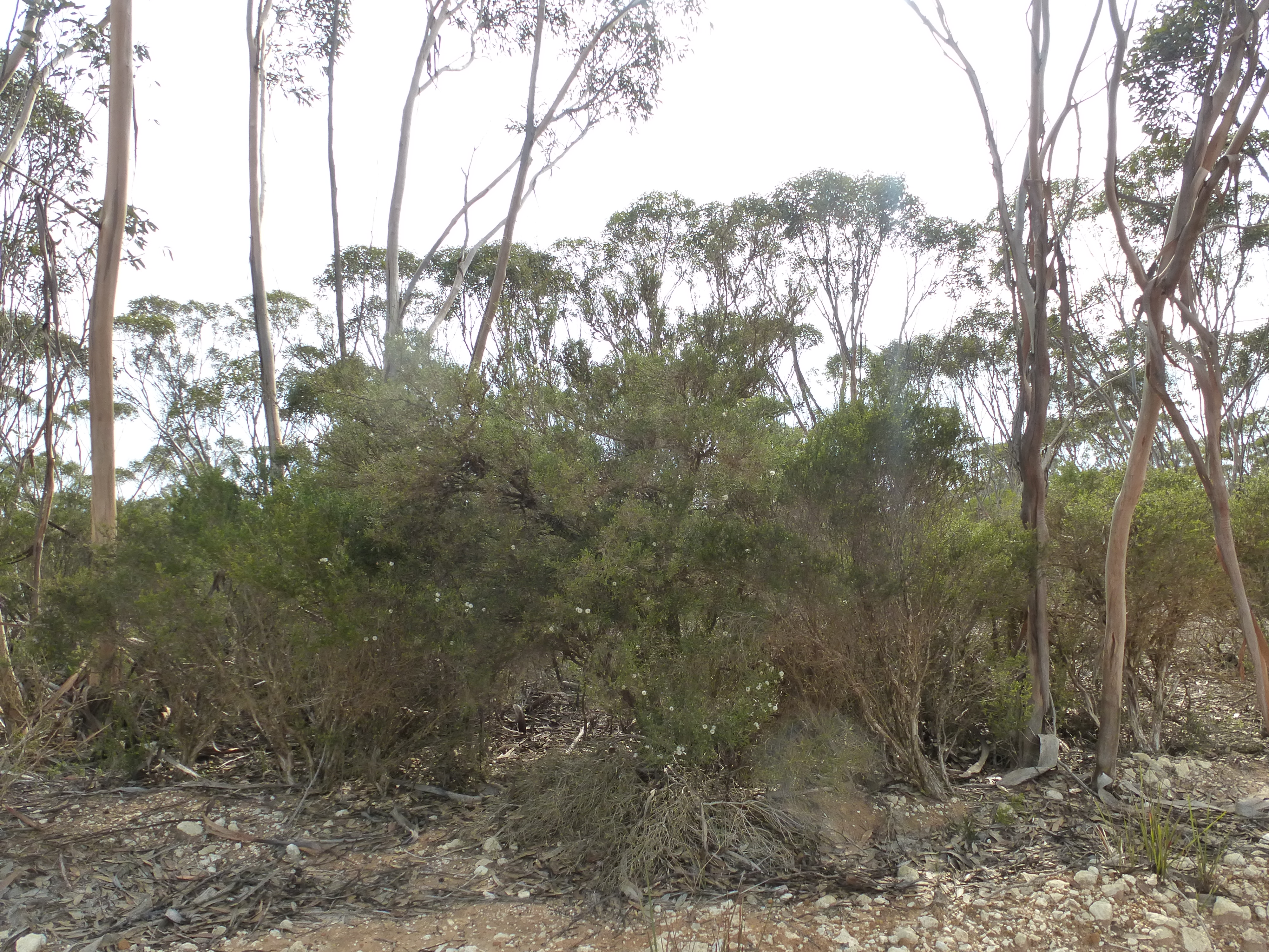 Melaleuca thyoides growing along Scaddan Road